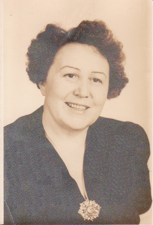 A personal picture of Lexie Dean Robertson given as a gift to Mary Louise Newborn.